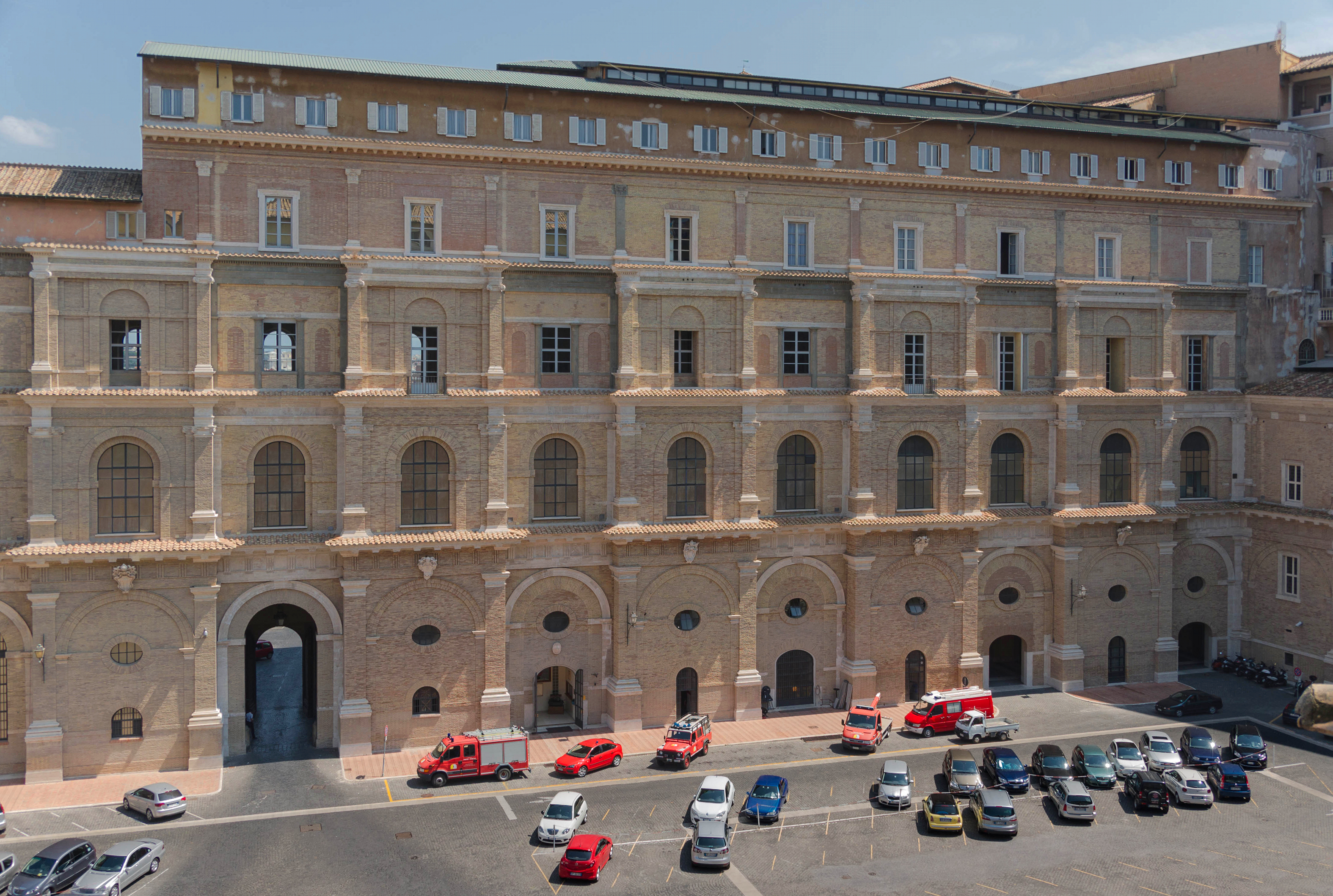 The building of the fire station, with fire vehicles, in the Belvedere Courtyard, Vatican City